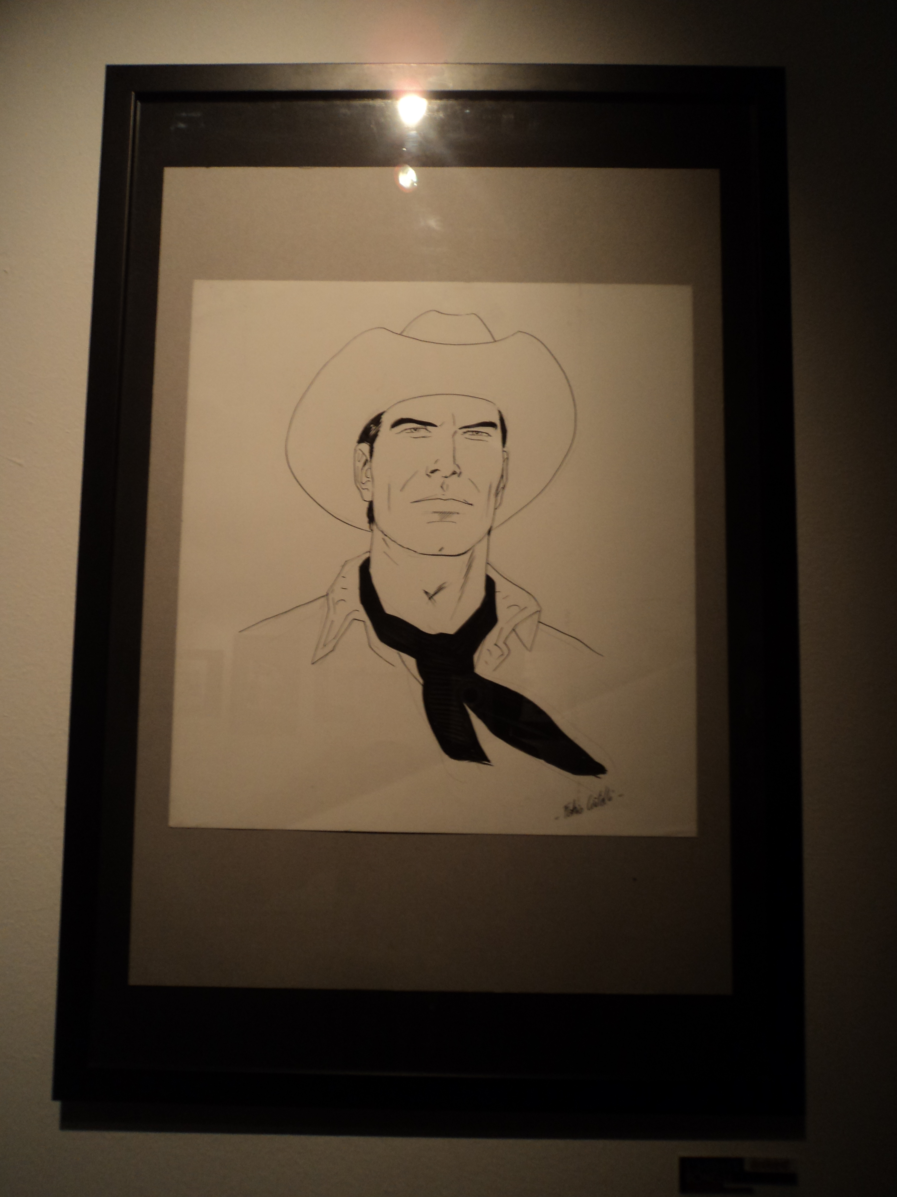 Show L'Audace Bonelli in Rome.